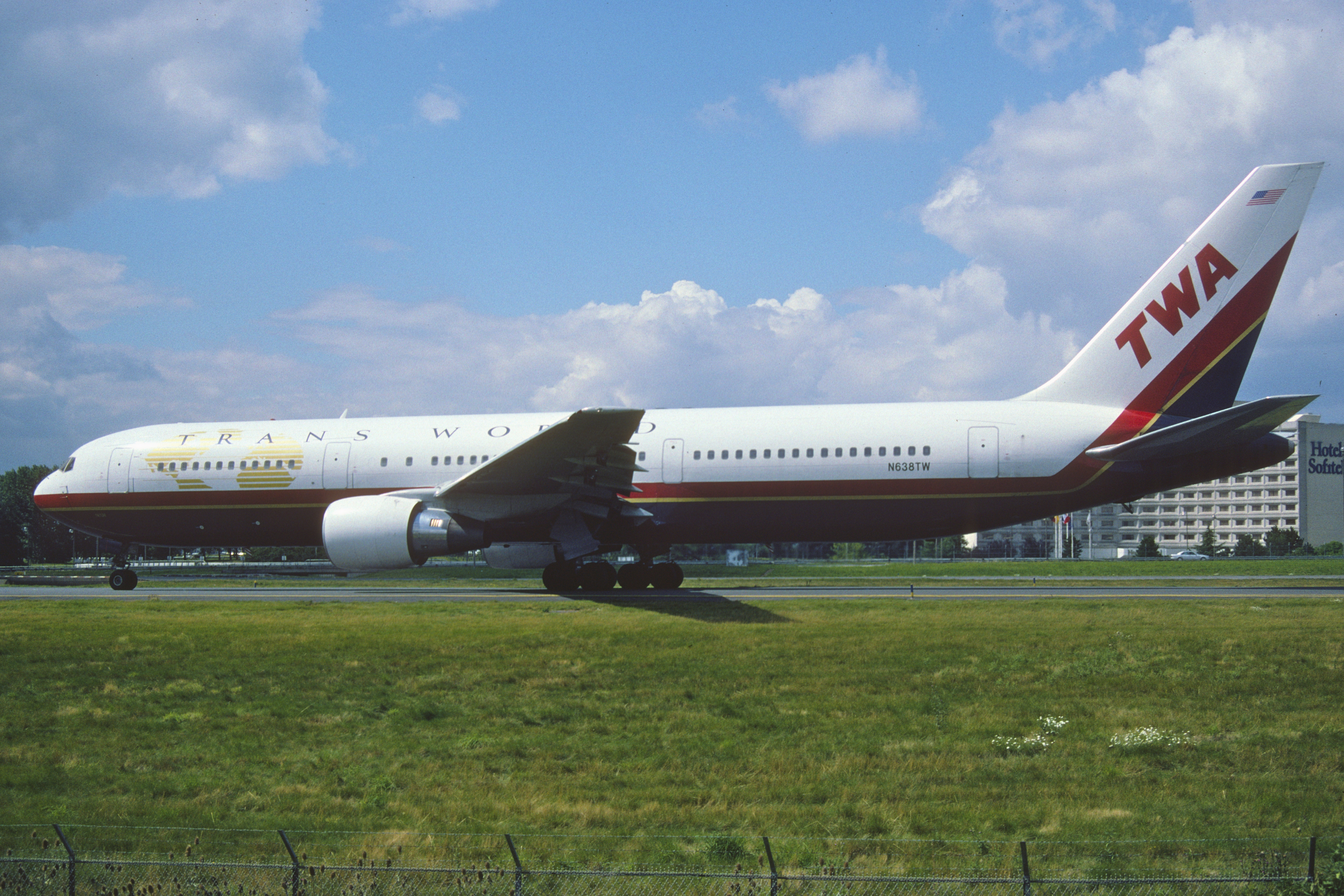 144ct - TWA Boeing 767-3Y0ER; N638TW@CDG;10.08.2001